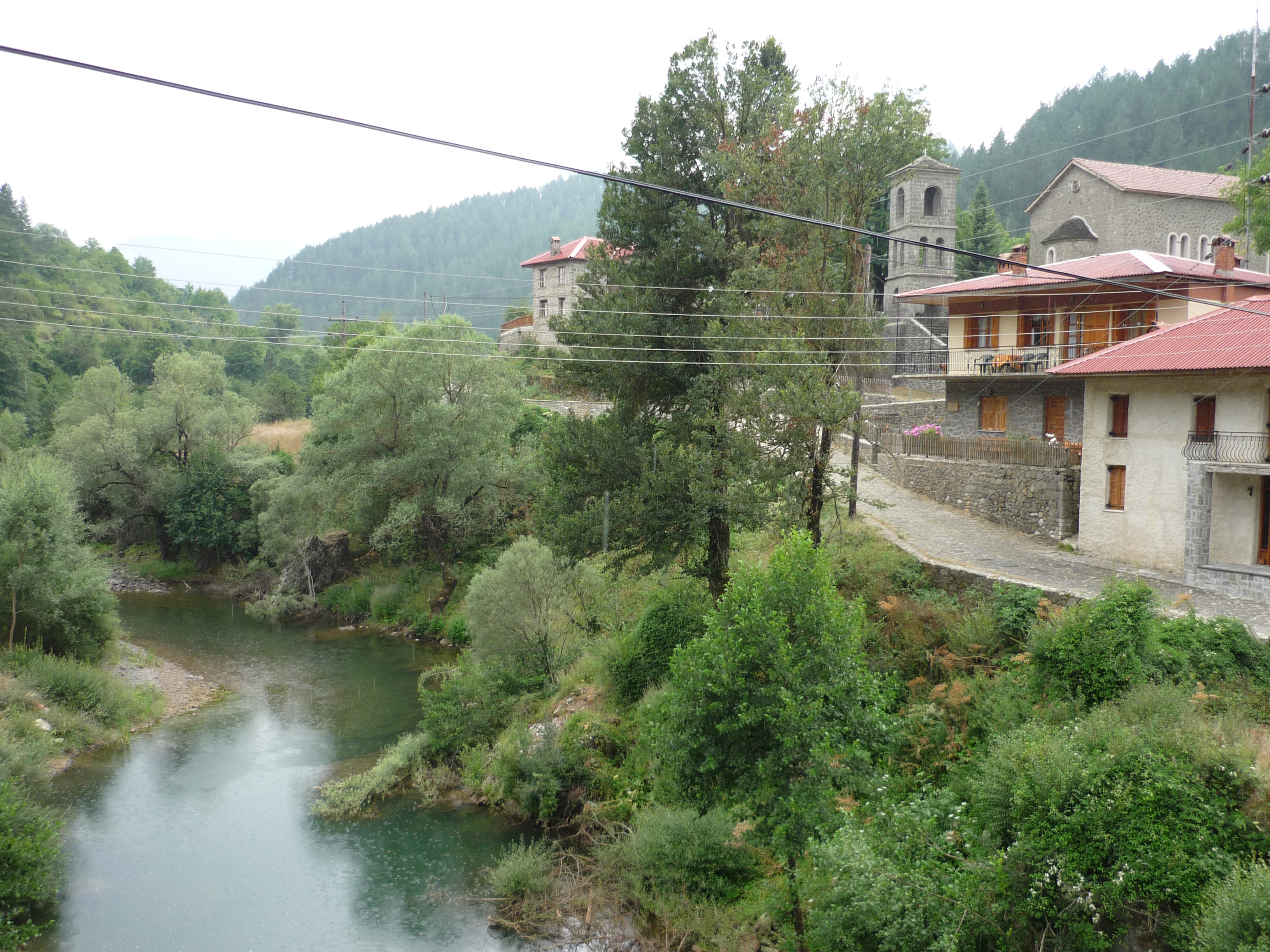 View from the bridje of the river in Vovousa, Ioannina prefecture, Greece